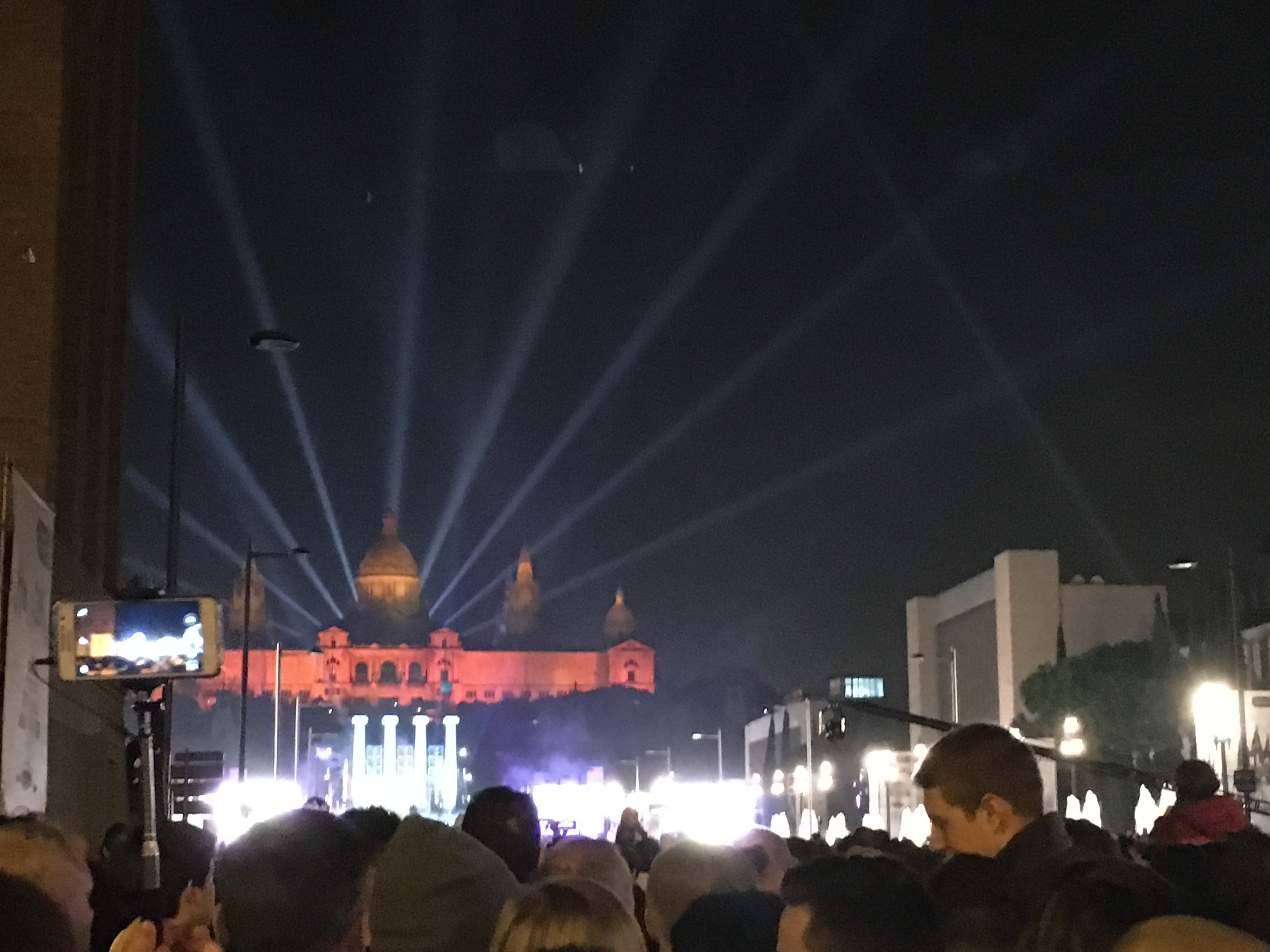 Año nuevo en barcelona, plaza de españa